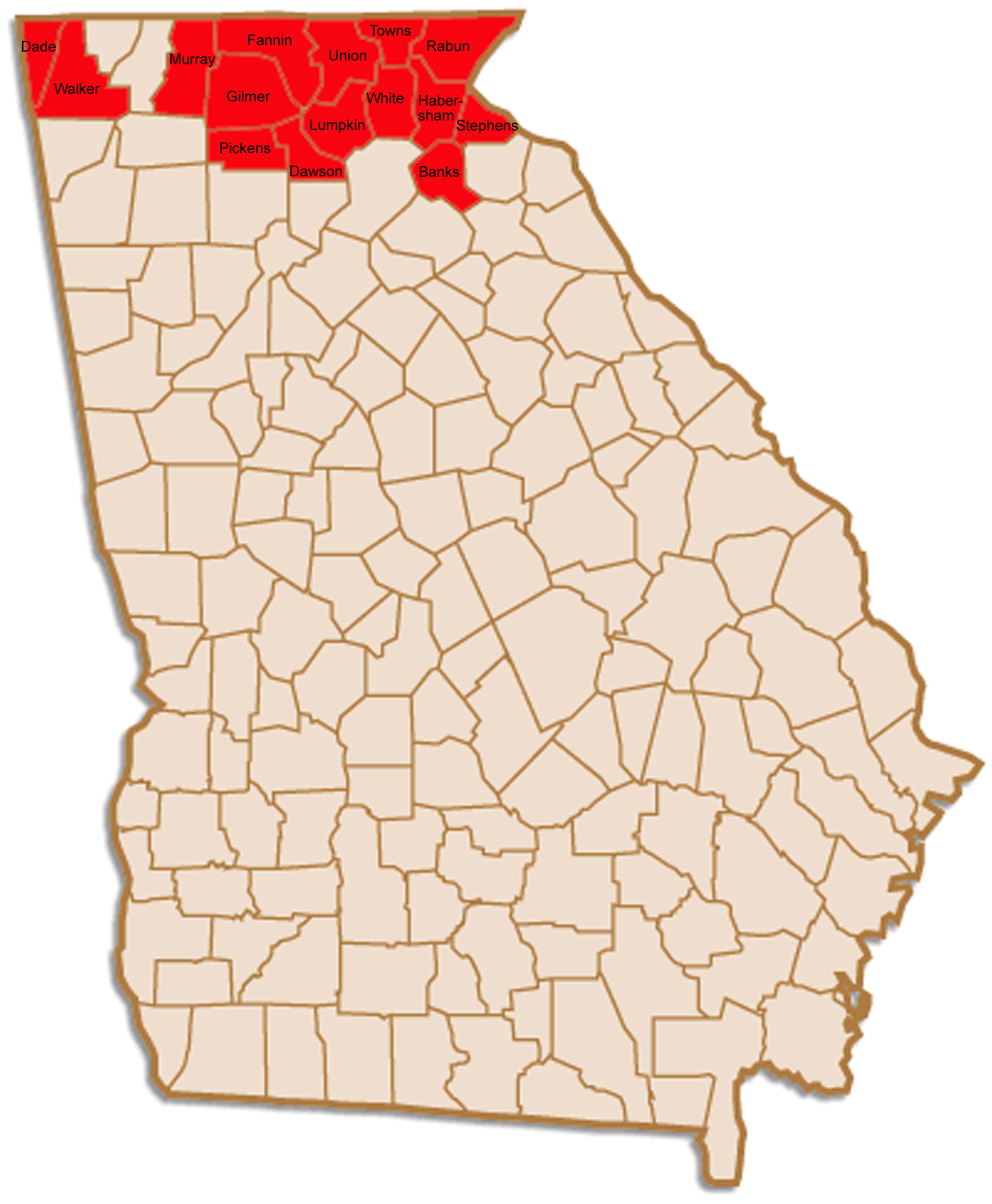 I am the author of this file.